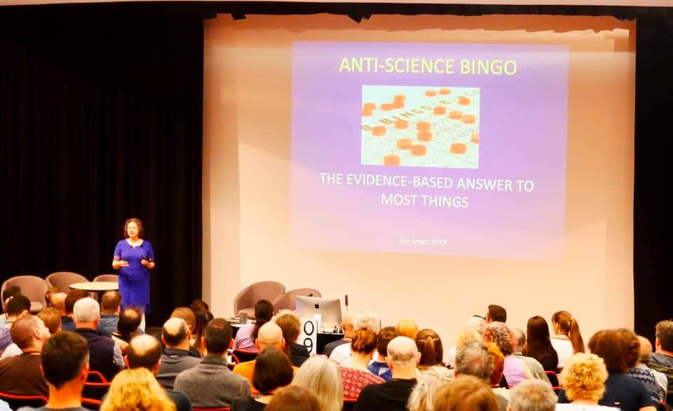 Sue Ieraci 2019 at Skepticon - Melbourne